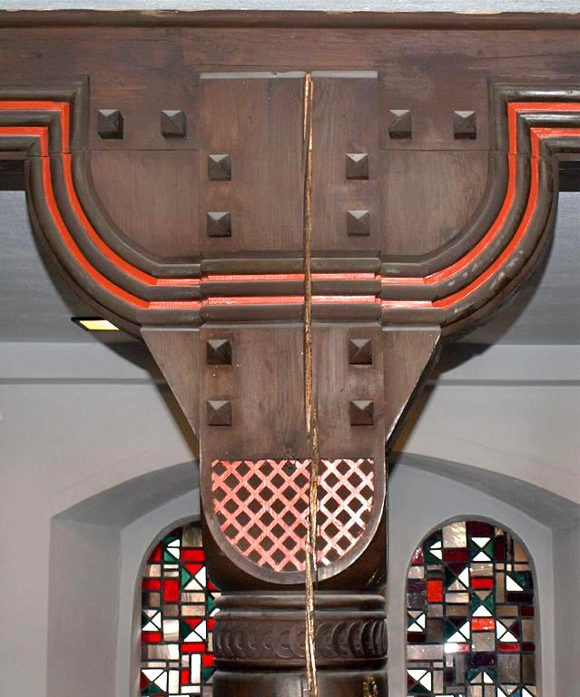 Westerland (Sylt), Slesvic-Holstein (Germany): church St. Nicolai,wood-carving, photo 2008